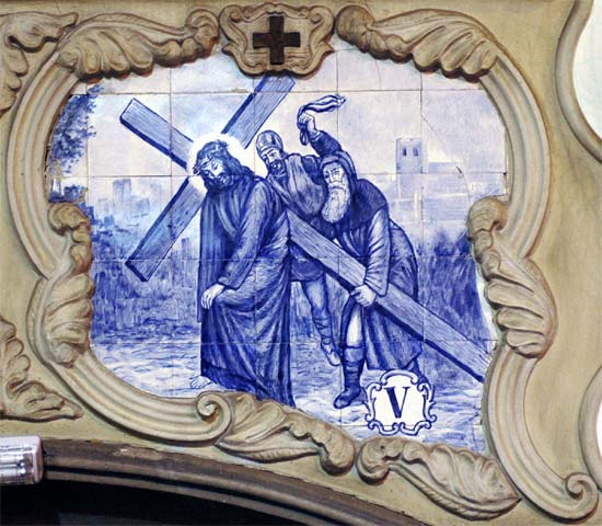 Nossa Senhora do Brasil Church